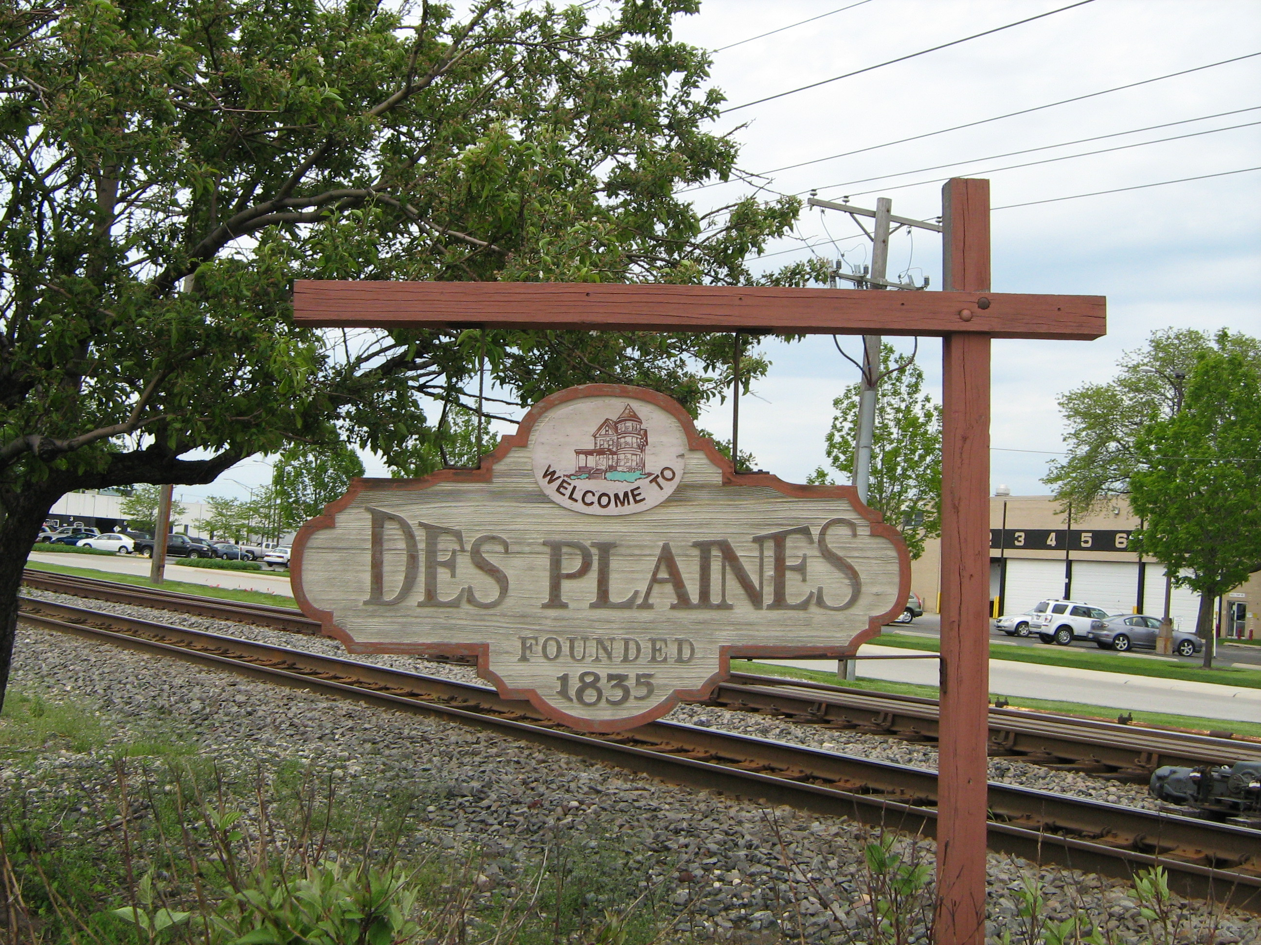 Welcome to the City of Des Plaines, Illinois Sign.